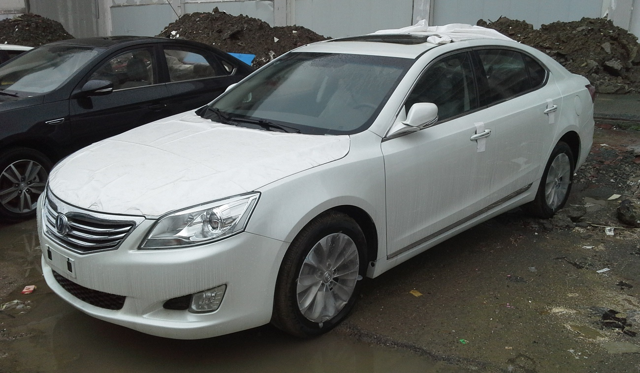 Chang'an Raeton photographed in Shanghai, China.